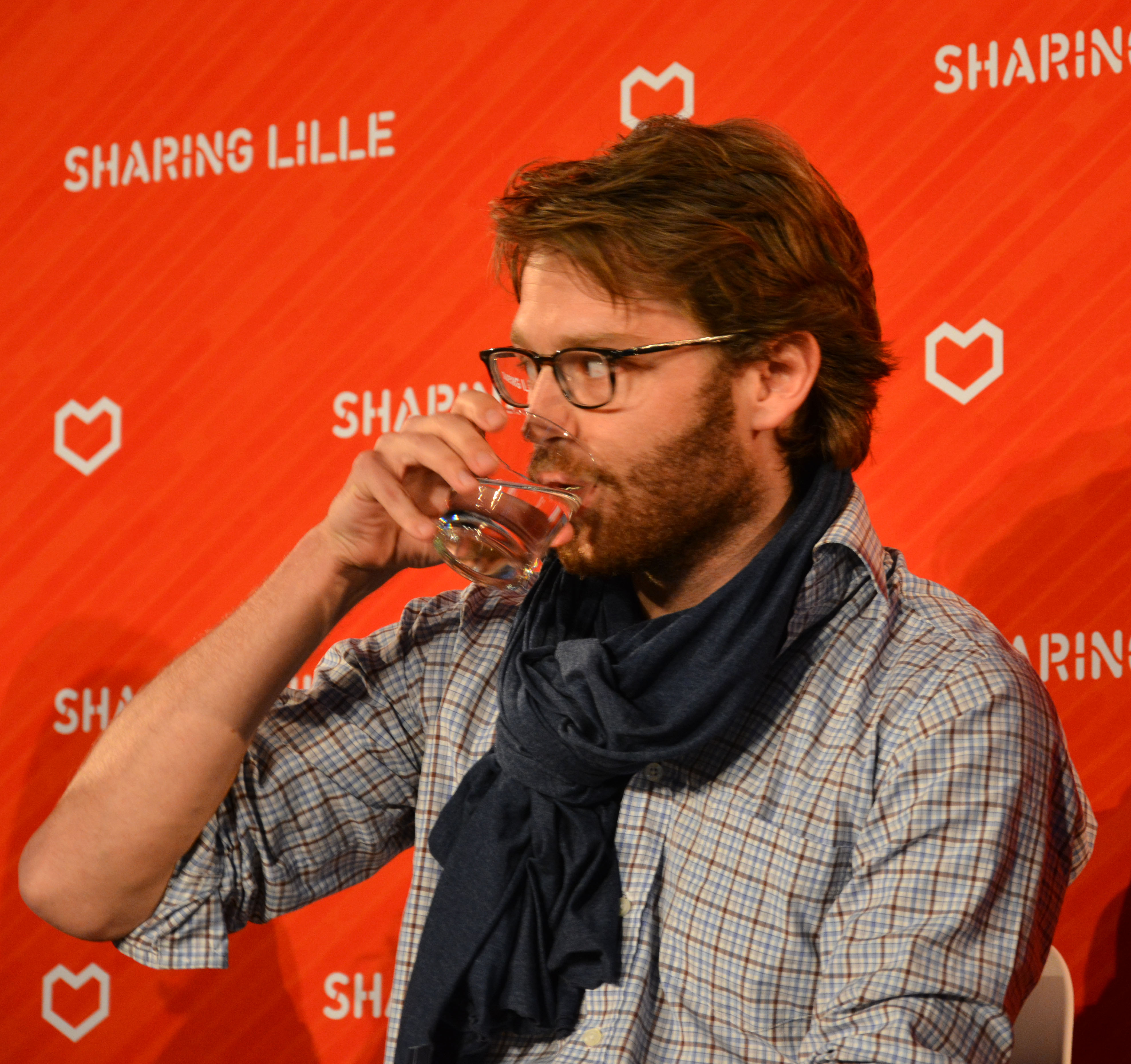 Antonin Leonard (OuiShare), "Sharing Lille" 2016-04-21 (day dedicated to the collaborative economy across territories). This event was held in Lille Euratechnologies (in Region Nord-Pas-de-Calais and Picardy called "Hauts de France")